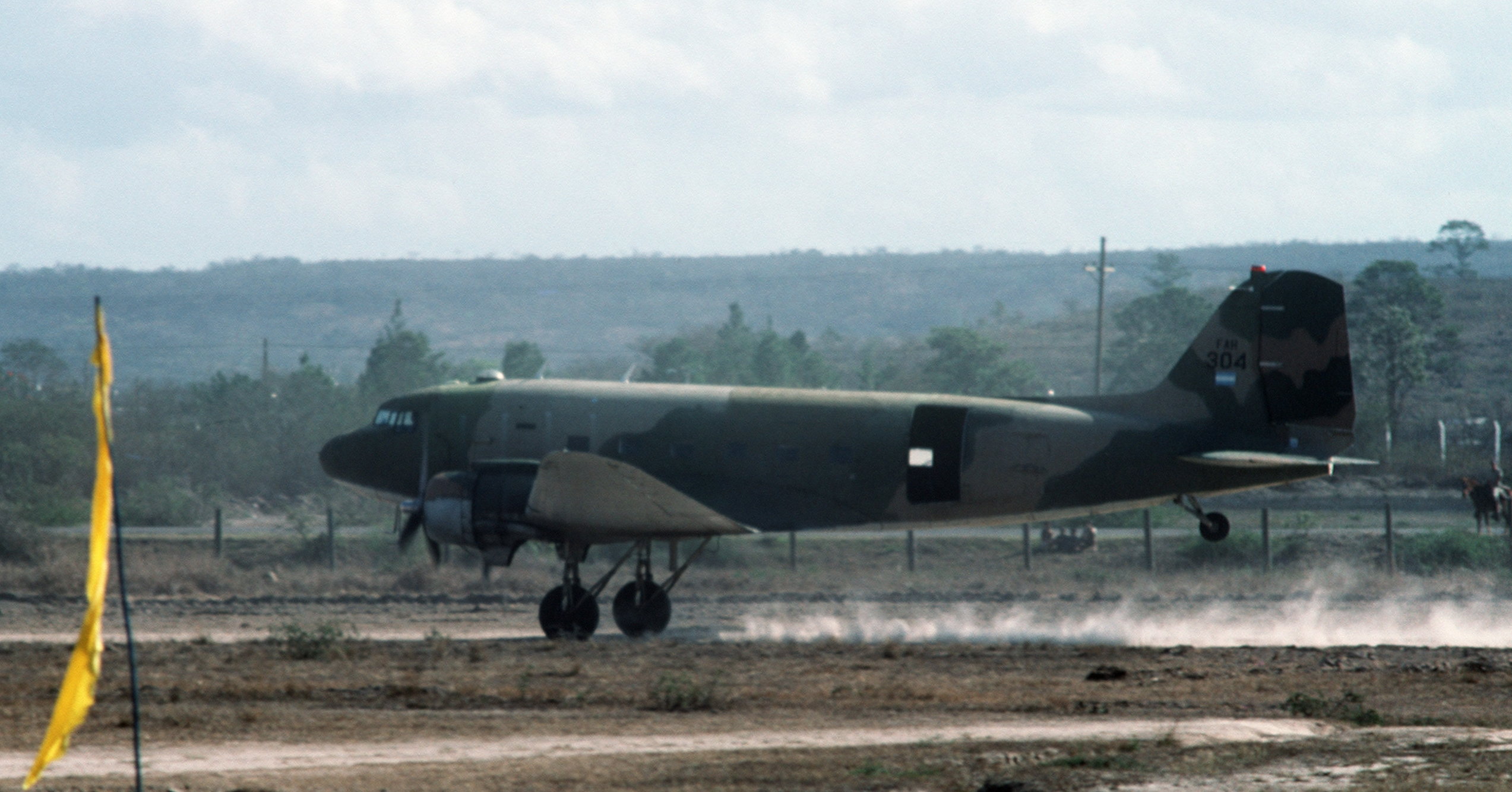 A Honduran Douglas C-47A-20-DK Skytrain aircraft (FAH 304, c/n 12962, ex-USAF 42-93089) taking off for a joint US/Honduran parachute jump during a mobilization of US exercise "Task Force Dragon/Golden Pheasant" in 1988. The task force, consisting of both the 82nd Airborne Division, and the 7th Light Infantry Division, was deployed by U.S. President Ronald Reagan to help discourage Nicaraguan forces from entering Honduras. The C-47A 42-93089 was sold to Honduras in October 1962 and remains in storage as late as 2011.